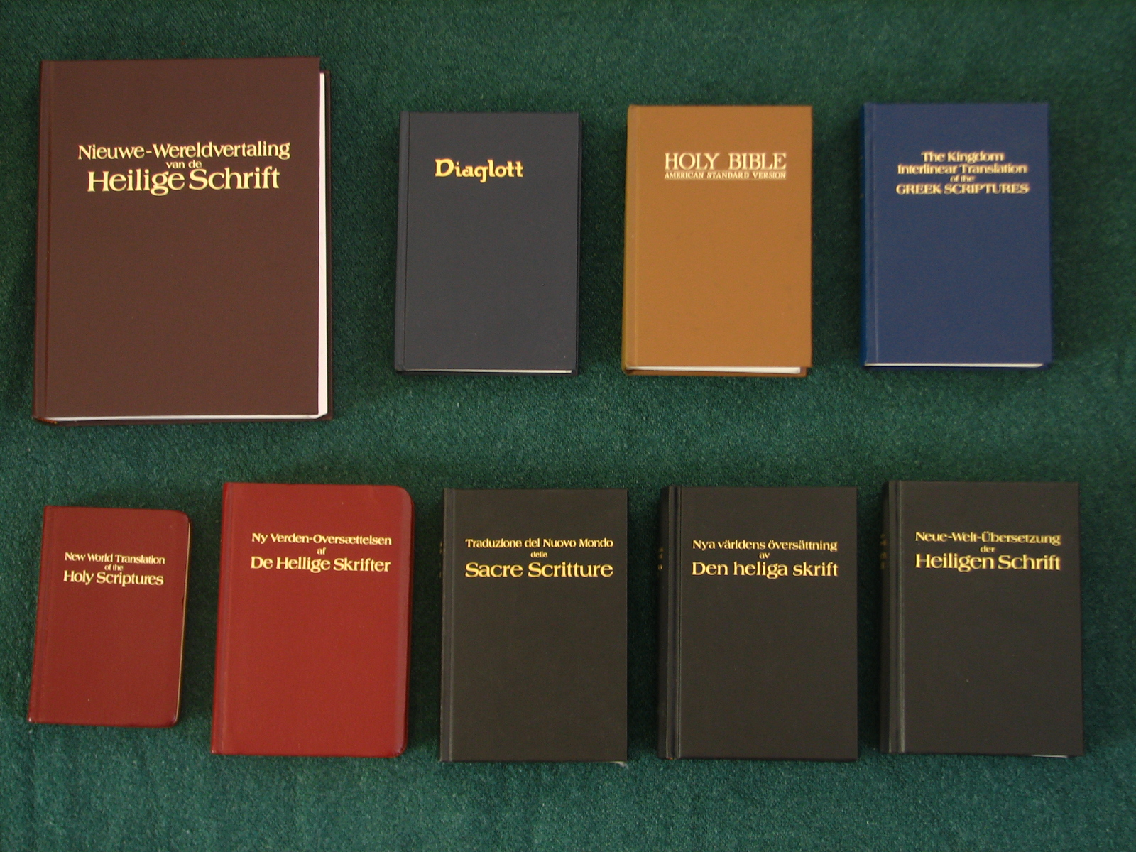 File:New World Translation, American Standard Version, Emphetic Diaglott, Kingdom Interlinear Translation of the Greek Scriptures.jpg